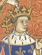 King Louis VIII of France